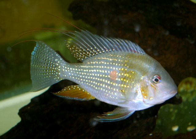 Acarichthys heckelii Photo: Dr. David Midgley own photo Category:Cichlid images